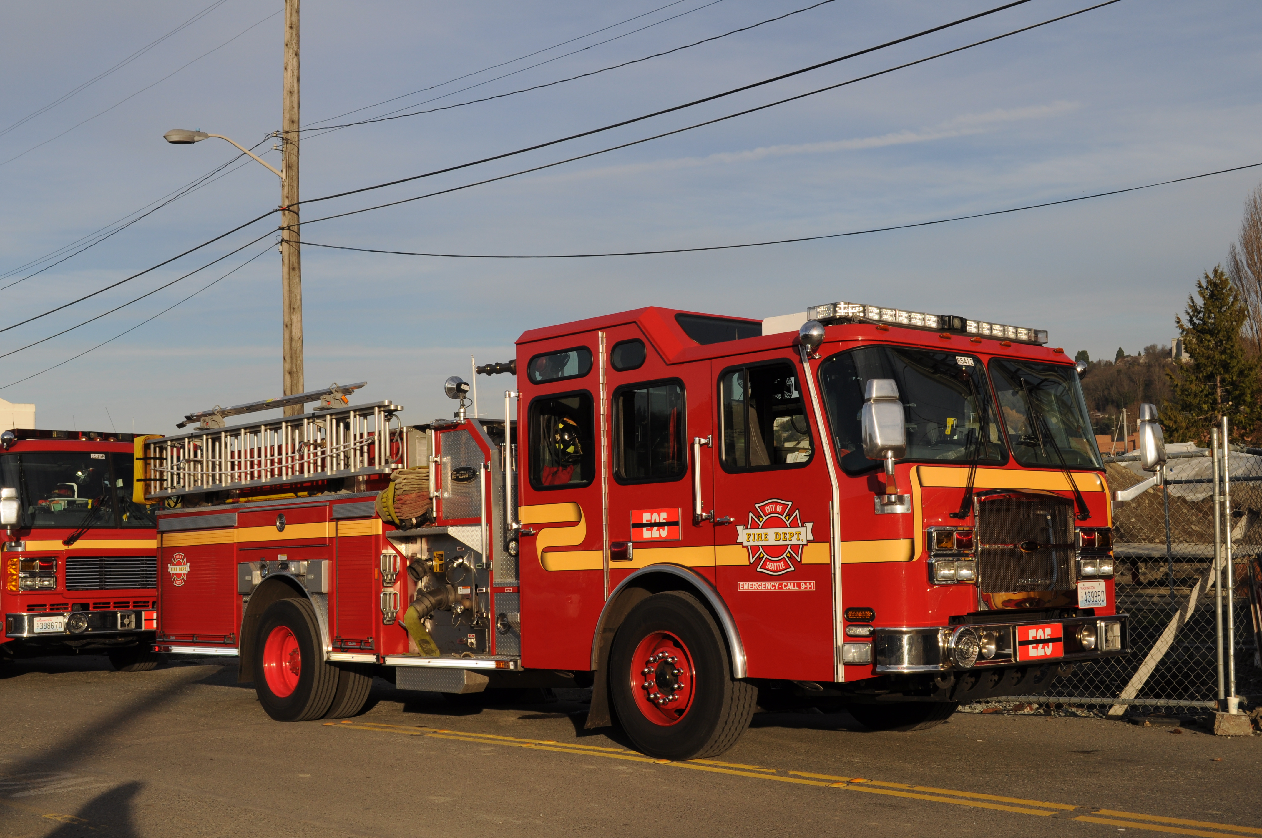 Seattle Fire Department Engine 8 (1995 Emergency One; I believe that's made by Spartan) parked outside the former Naval Reserve Building, South Lake Union, Seattle, Washington during a memorial for Fire Department Battalion Chief David H. Jacobs, Jr.